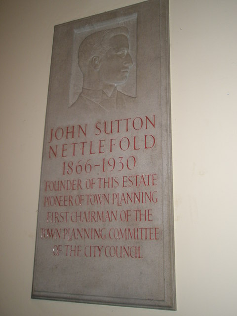 Memorial plaque to John Sutton Nettlefold within Moorpool Hall, Harborne For more details on this eminent philanthropist see John_Sutton_Nettlefold